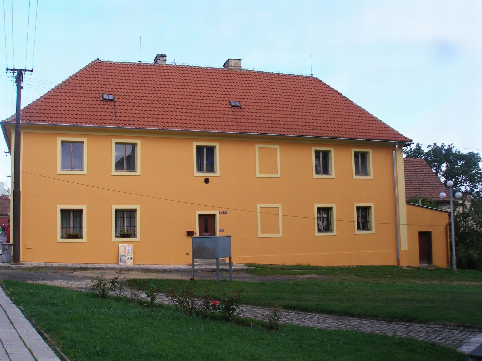 Museum of Nové Strašecí, Czechia